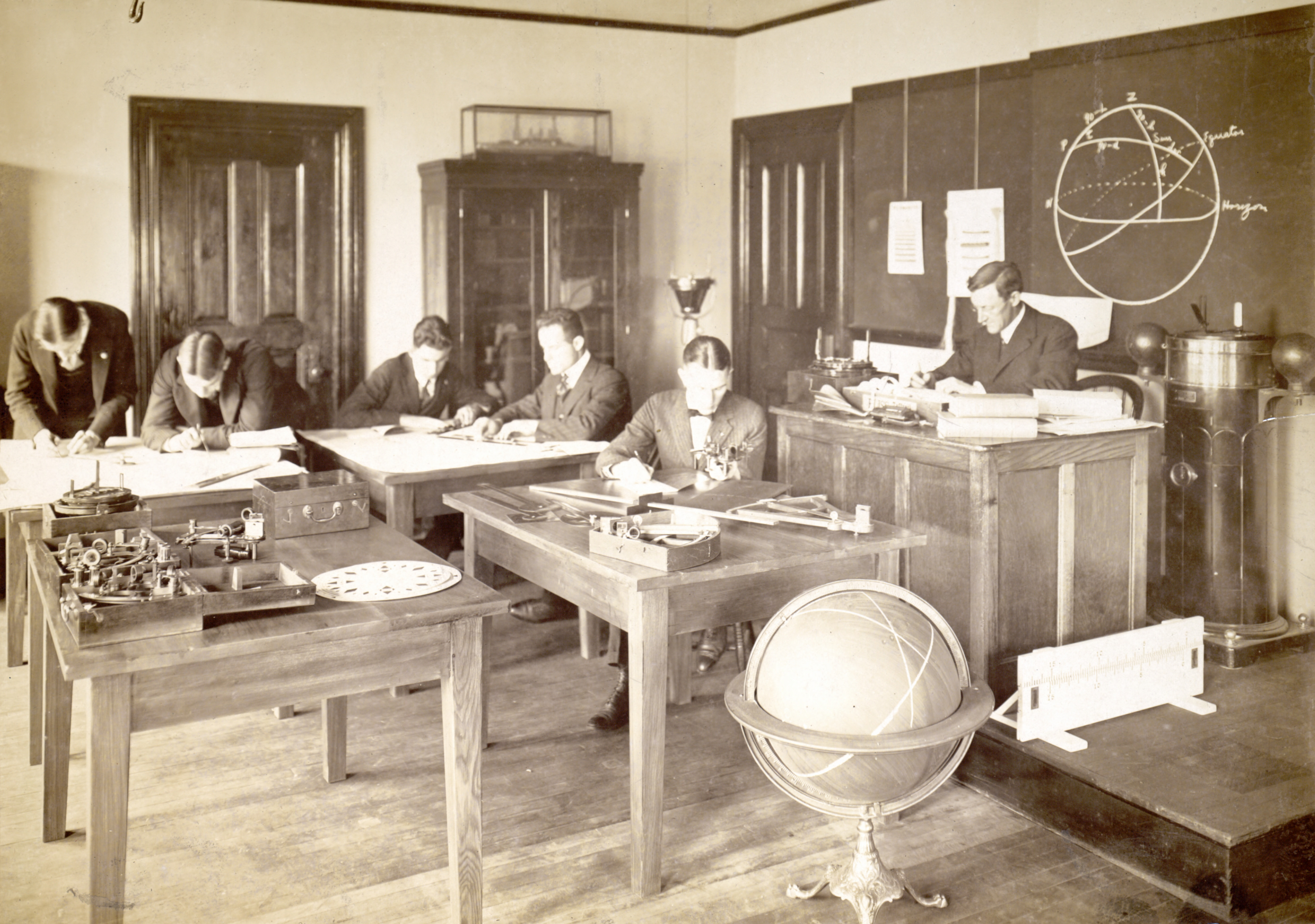 Frederick Slocum teaching a class in celestial navigation, 1914.Original caption: "Celestial navigation in Rogers Hall during World War I. Seated at the elevated desk is Dr. Frederick Slocum."